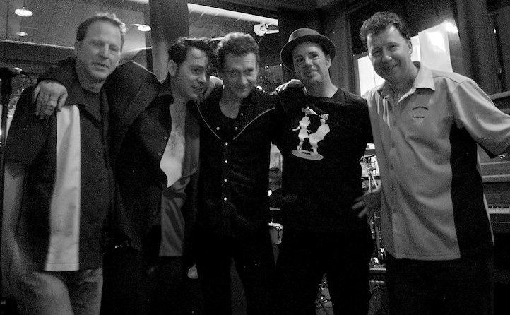 Nervous fellas 2011 Current members, L to R Gary, Butch, Phil, Al and Chris